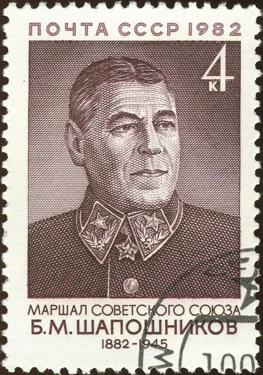 A USSR stamp, Military persons of the USSR Birth Centenary of B.M.Shaposhnikov. Date of issue: 10th September 1982. Designer: V. Nikitin, Michel catalogue number: 5211. 4 K. purple-brown. Portrait of Marshal B. M. Shaposhnikov (1882-1945).